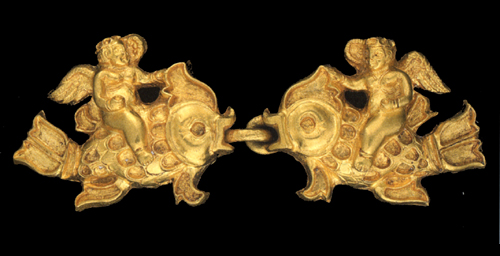 Amorini riding on fish. Tillia tepe. Musee Guimet. Personal photograph 2006.